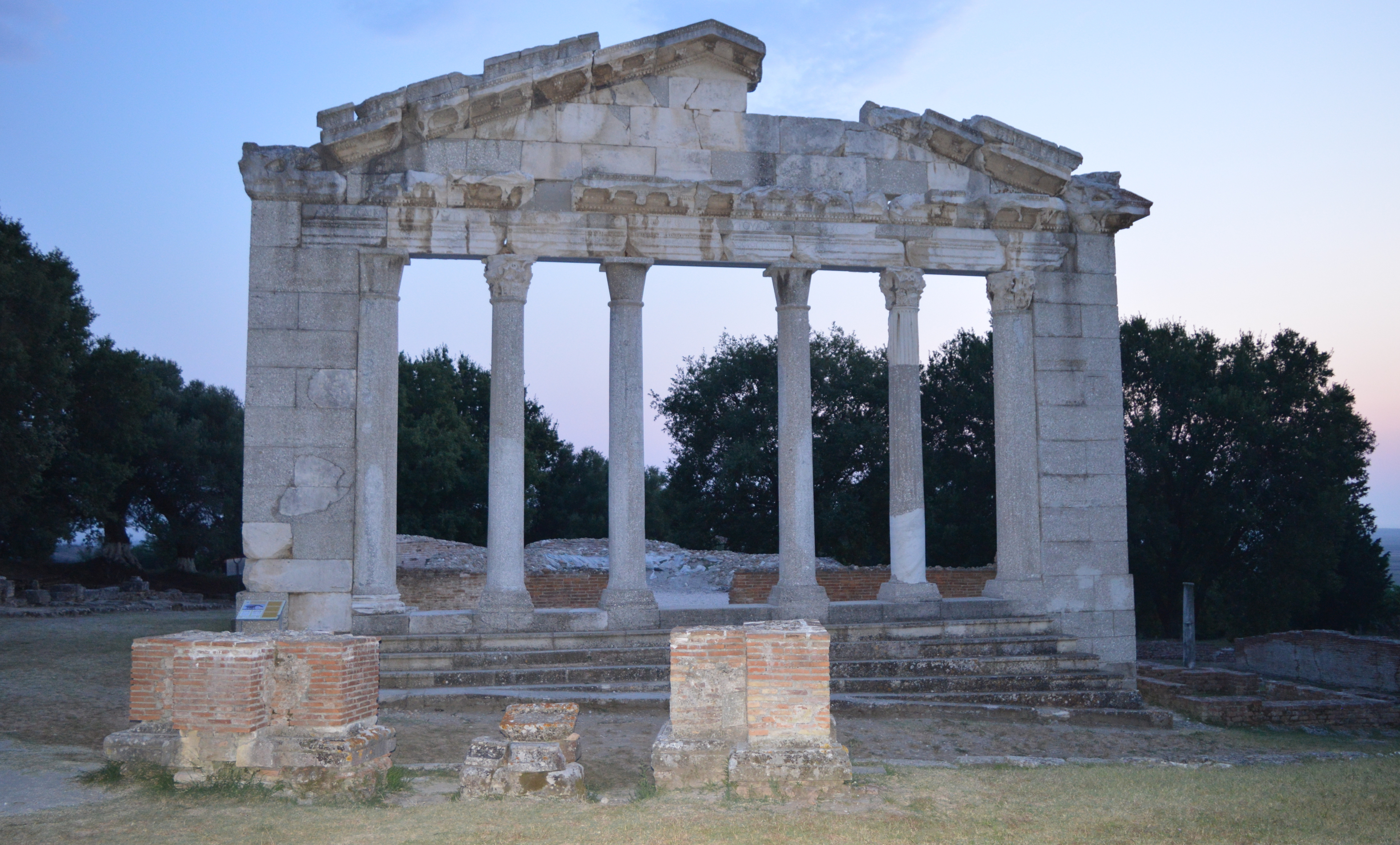 Butlerion (Archeological ruins in Apollonia Fier Albania. dates 2500 BC.